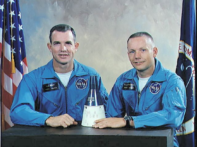 Portrait of the Gemini 8 prime crew. Astronauts David R. Scott (left) and Neil A. Armstrong pose with model of the Gemini spacecraft on table between them.